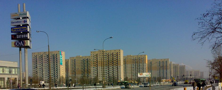 Zwyciestwa District - Poznan (from west).